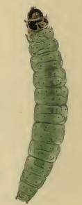 Stainton’s Natural History of the Tineina (1855–1873): Caryocolum viscariella